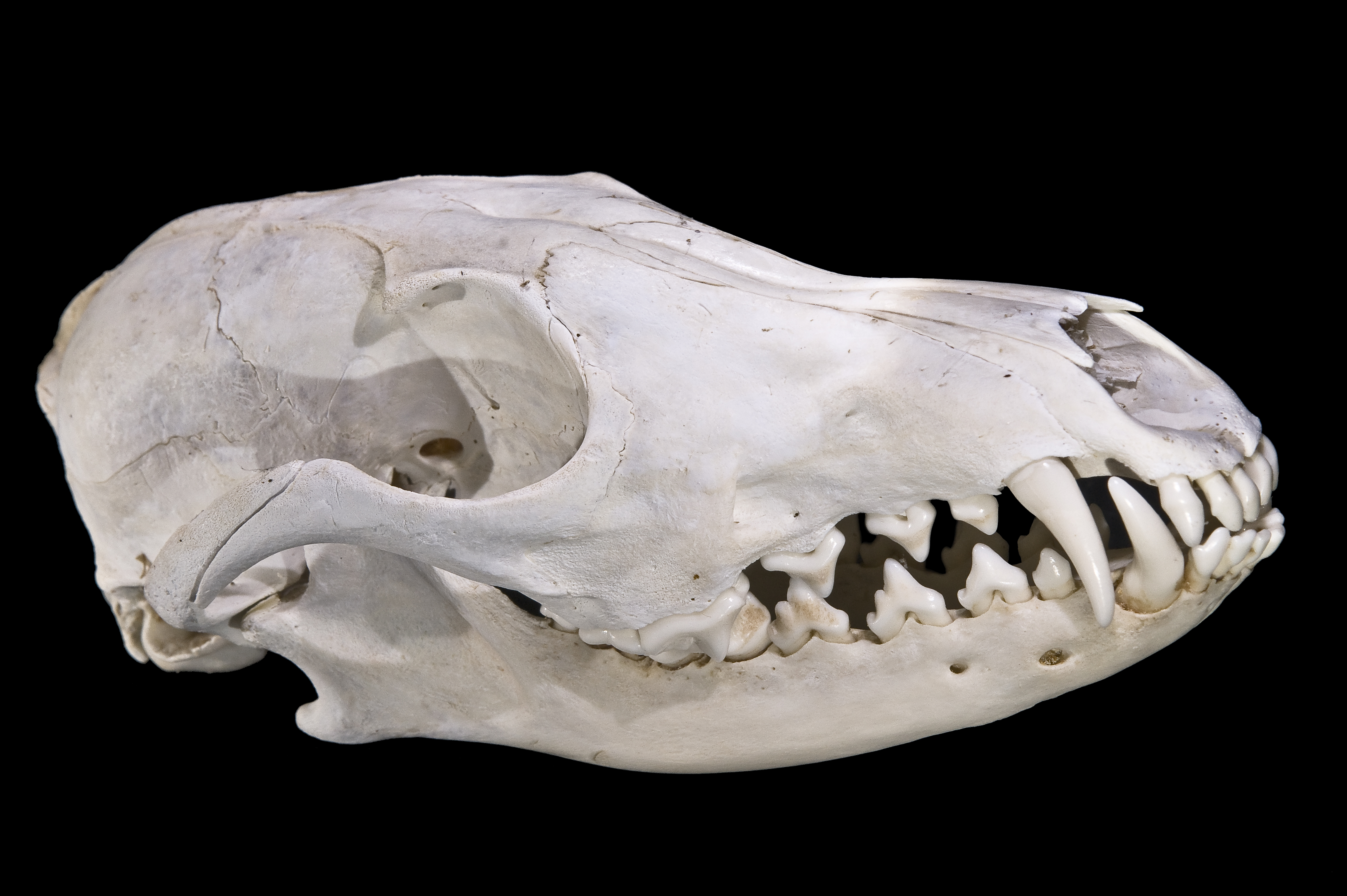 Red fox (Vulpes vulpes)- Skull Size : 14.5cm